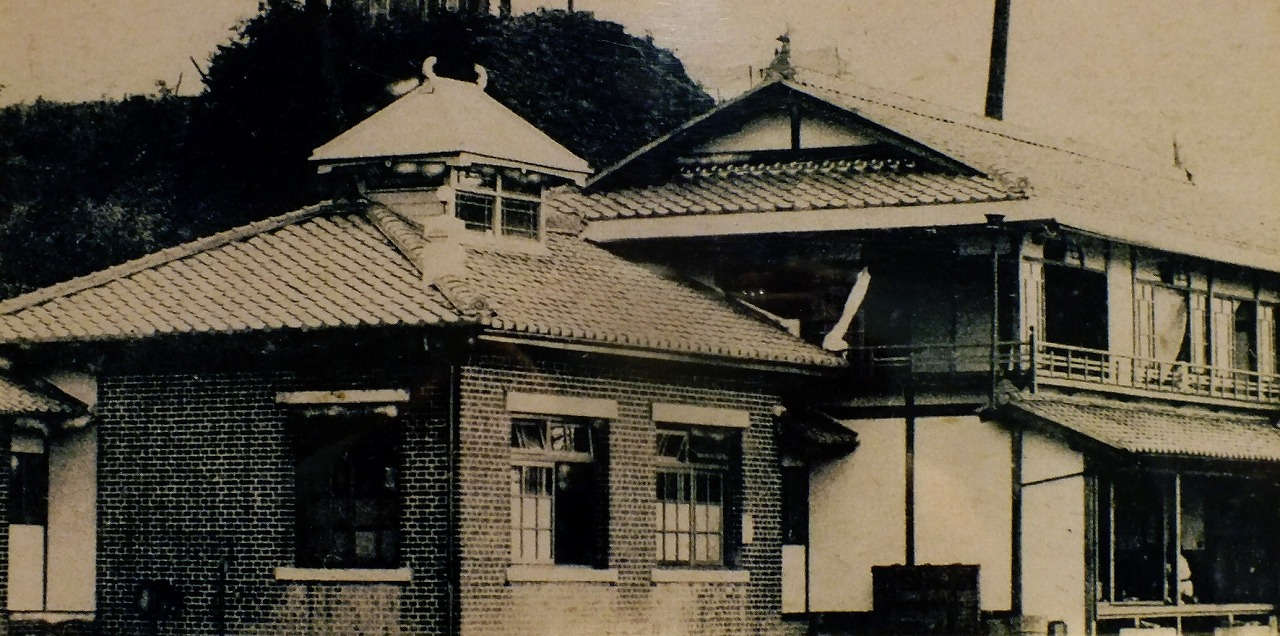 Yumotokan-Ogoto onsen 湯元舘 大正１３年